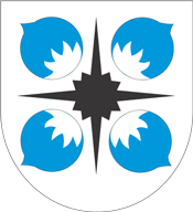 Coat of arms of Aegviidu, Estonia